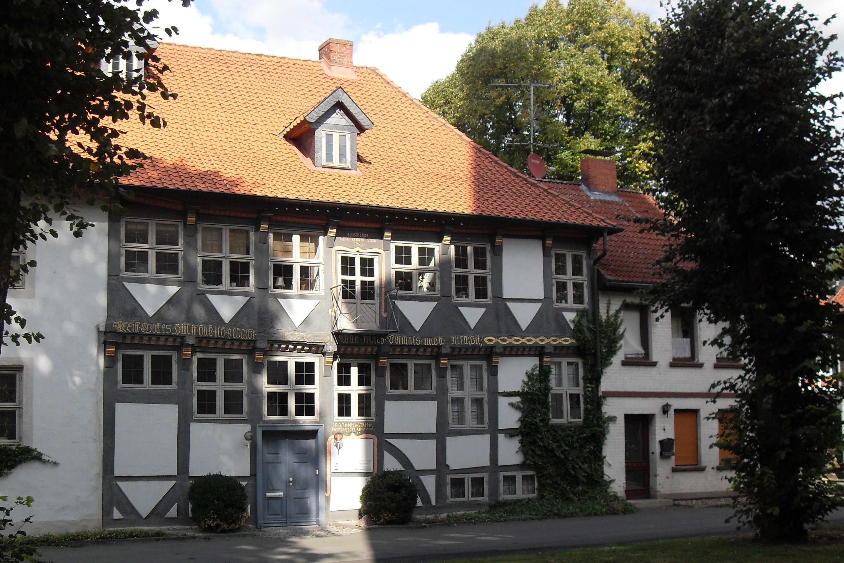 historic house with timber framing near the protestant church in Schöppenstedt